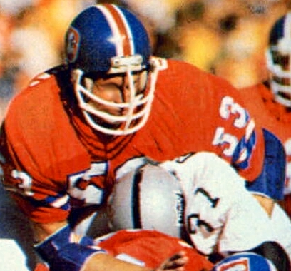 Denver Broncos linebacker Randy Gradishar tackling an Oakland Raiders running back in the 1977 AFC Championship Game on January 1, 1978.